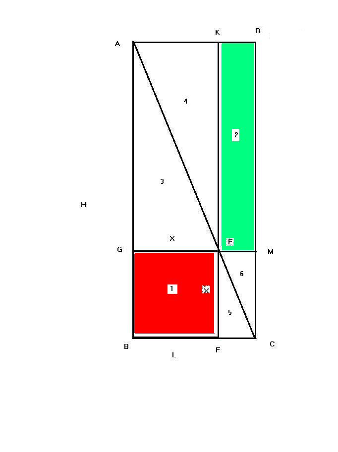 Square and rectangle in right angle triangles勾中容方与股中容直